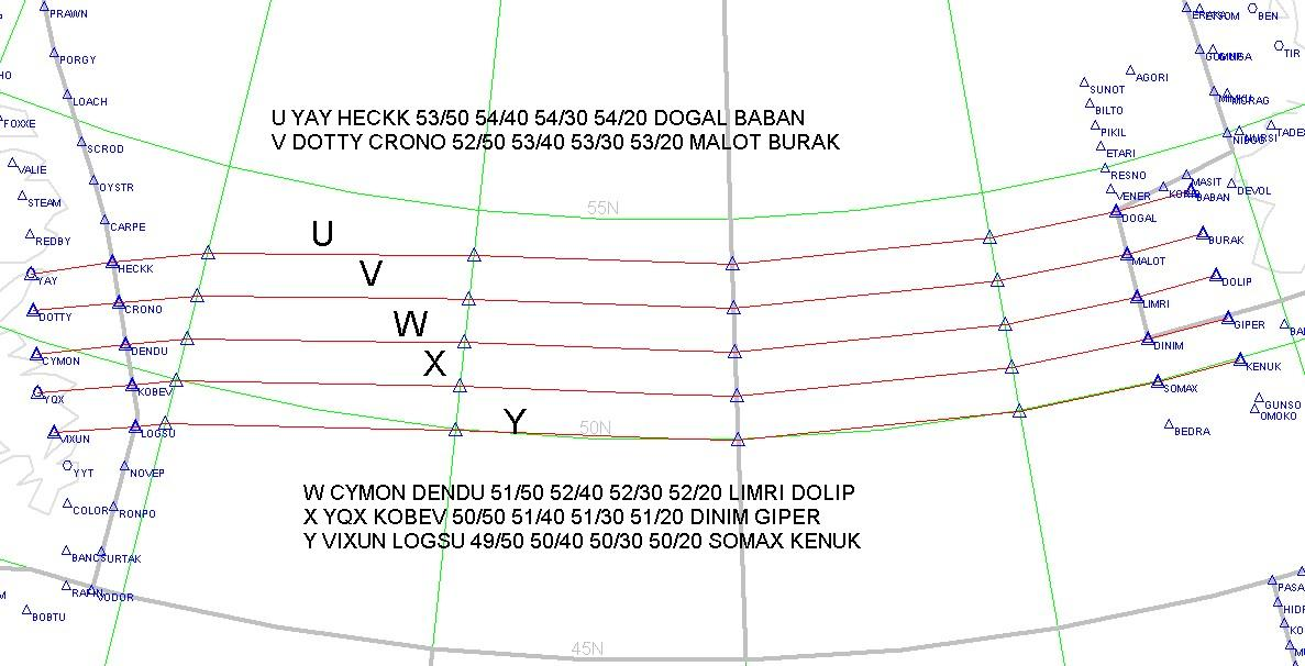 North Atlantic Tracks for the eastbound crossing on the evening of May 4, 2006. Made using NATPLOT.